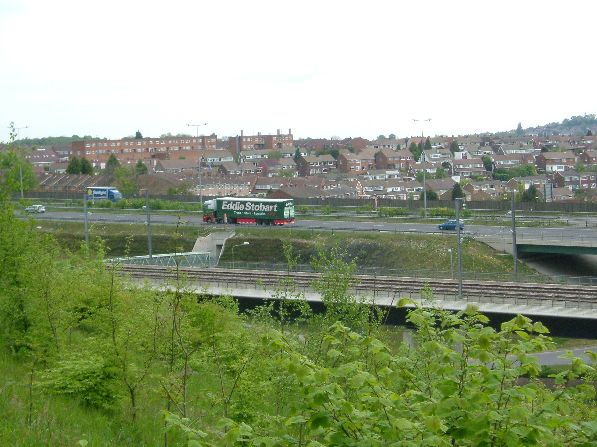 A view over Strood from Merrall's Shaw, Ranscombe Farm, Cuxton. In the foreground is the Raillink then, M2 motorway, both passing over the entry roundabouts at Junction 2 M2/A228. On the M2 is an Eddie Stobart lorry, passing over a footpath tunnel and footbridge. The tunnel leads to Elgin Gardens Strood. The far ridge to the right is Broom Hill, on the NW edge of Strood, It is about 2.5km away.